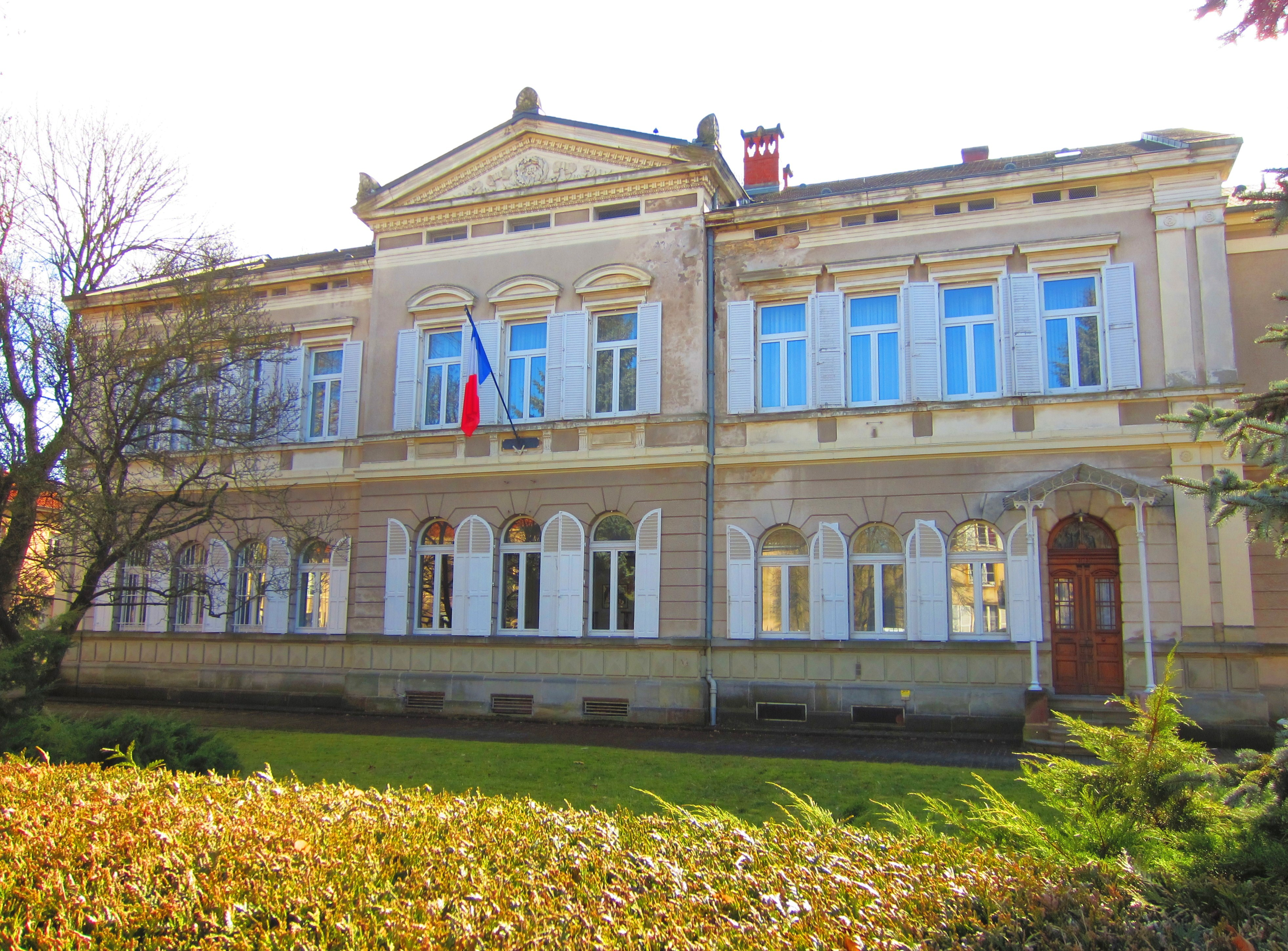 Prefecture Boulay Moselle